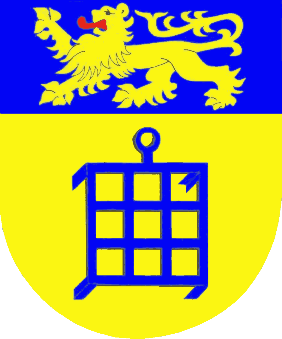 Coat of arms of the municipality Munkbrarup in Schleswig-Holstein, Germany.